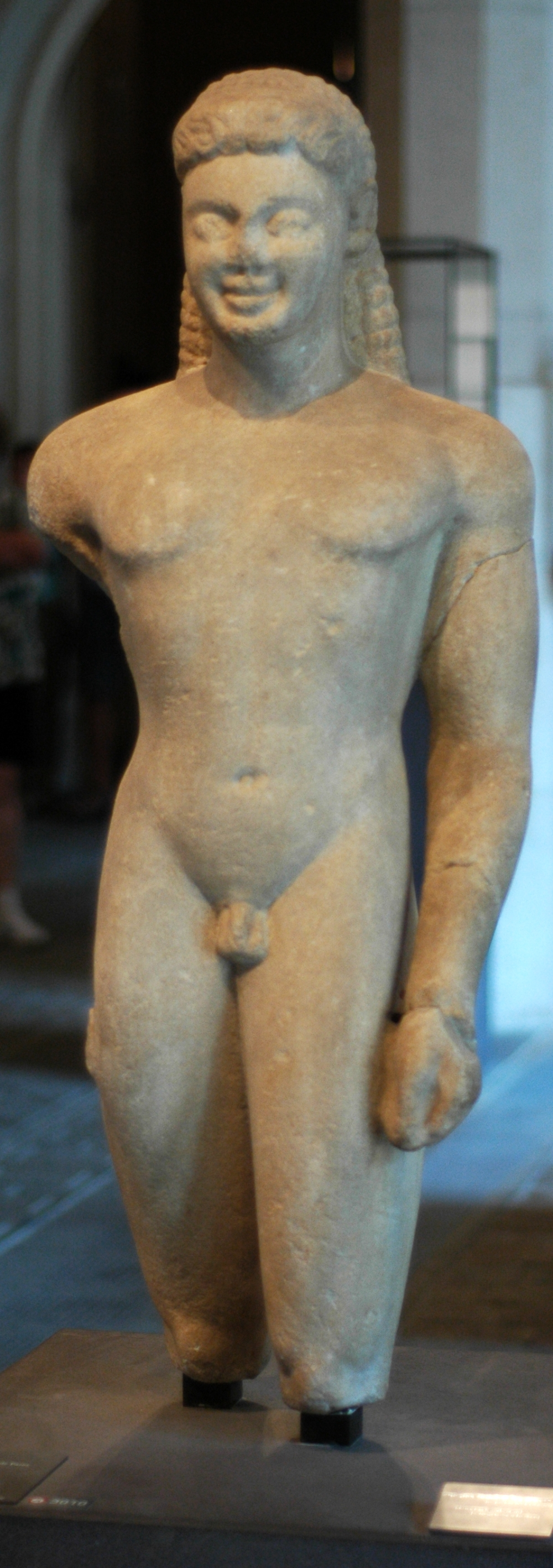 Head of a kouros from the Asclepieion of Paros. Parian marble, Greek artwork, ca. 540 BC.